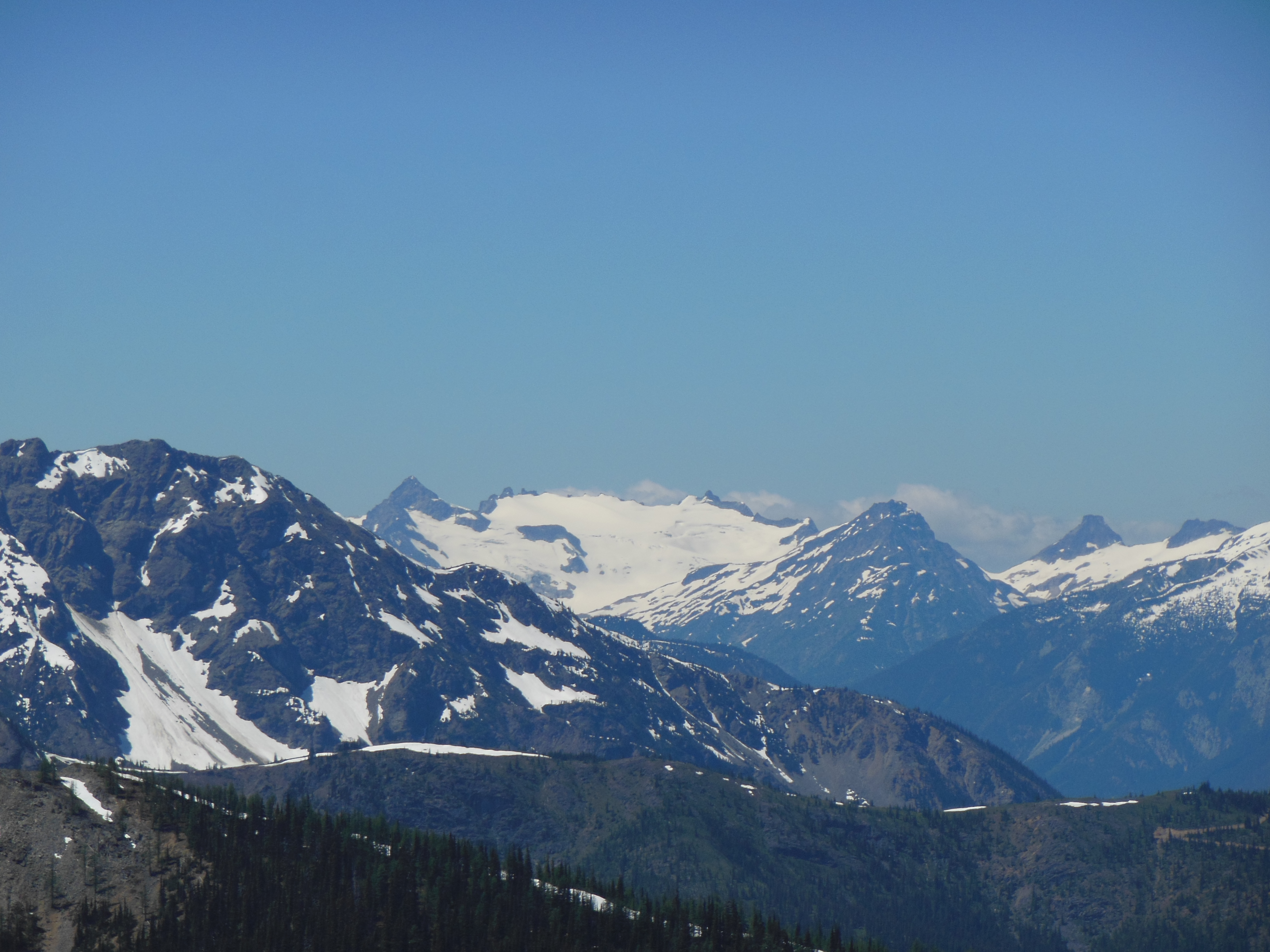 View west to the Neve Glacier on Snowfield Peak in the North Cascades of Washington, seen from the Pacific Crest Trail (PCT) between Slate Pass and Slate Peak in eastern Whatcom County